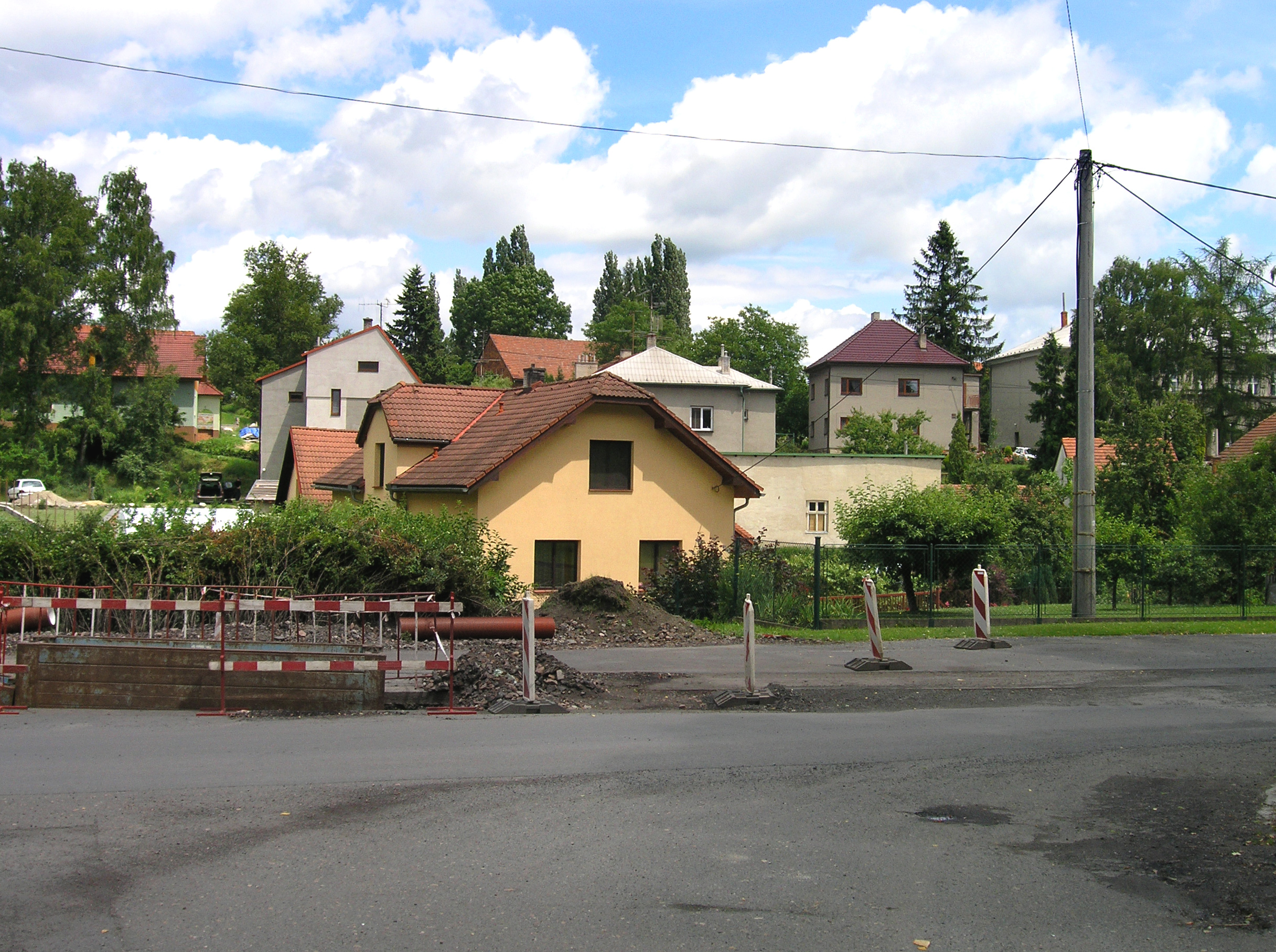 2. května street in Studénka, Czech Republic